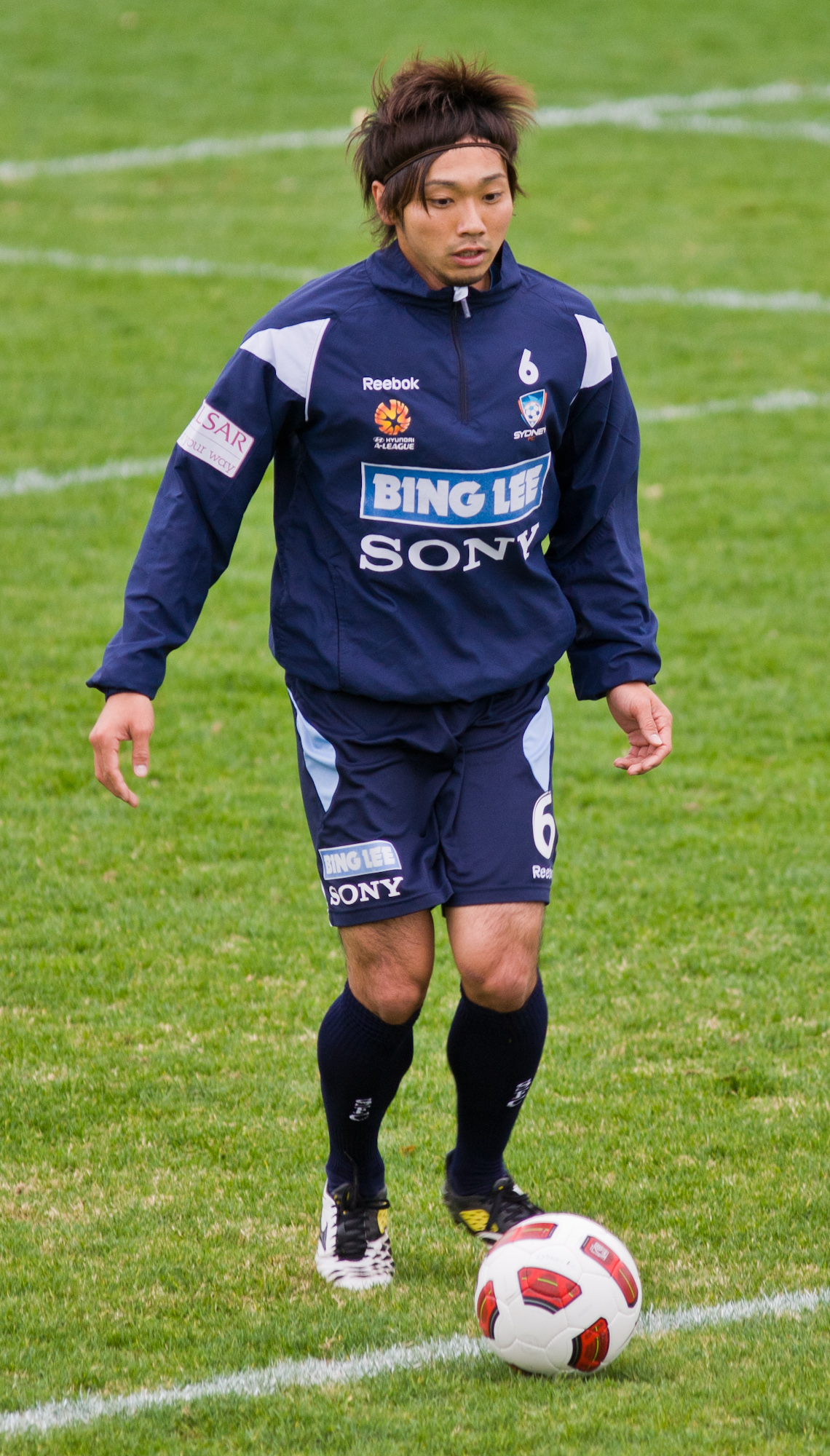 Hirofumi Moriyasu at a Sydney FC training session.